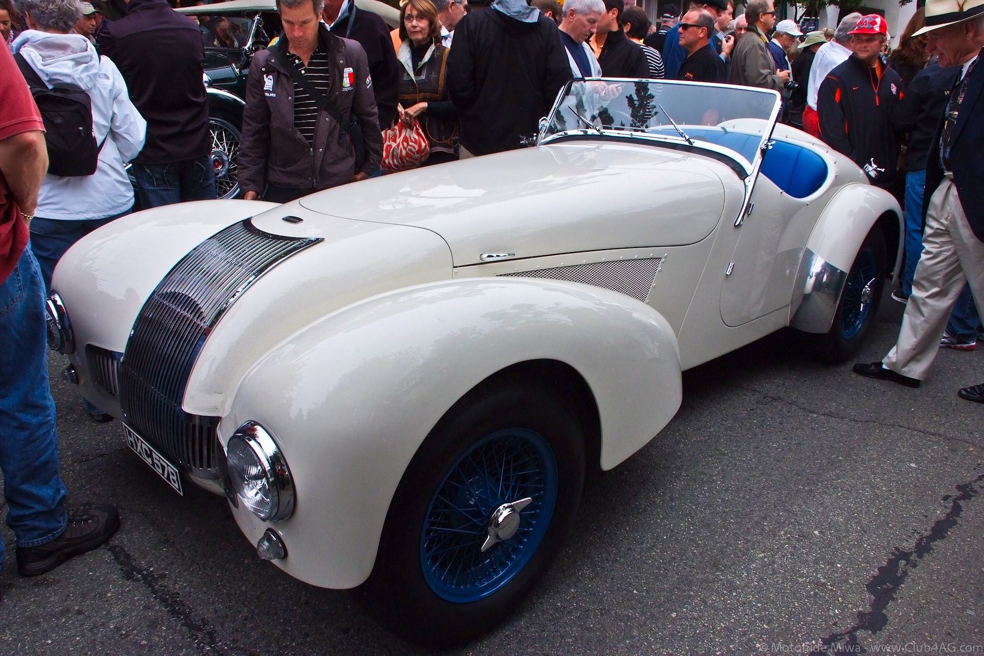 The "White Challenger", Jim Appleton's 1946 Allard J1 (chassis number '110', registered HXC 578) which formed part of a three-car trials team known as Candidi Provocatores (Pure Troublemakers). Seen at the Monterey Historics, August 2011